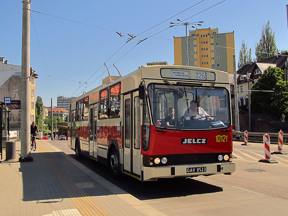 Jelcz 120MTE 10121, trolleybus line 326, Gdynia, 2018